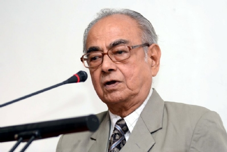 Jayanta Kumar Ray in a conference in New Delhi